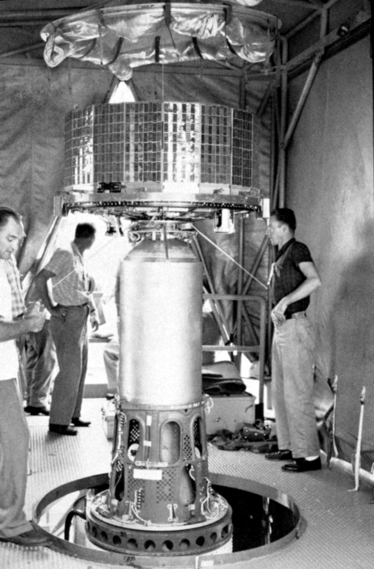 Mounting early TIROS satellite on nose of rocket prior to launch. TIROS satellites were 18-sided polygons, 22 1/2 inches high with a 42-inch diameter. They weighed between 270 and 300 pounds.